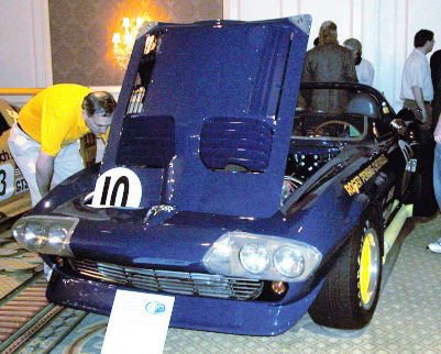 Grand Sport Corvette #001 from the 2003 Amelia Island Concours d'Elegance